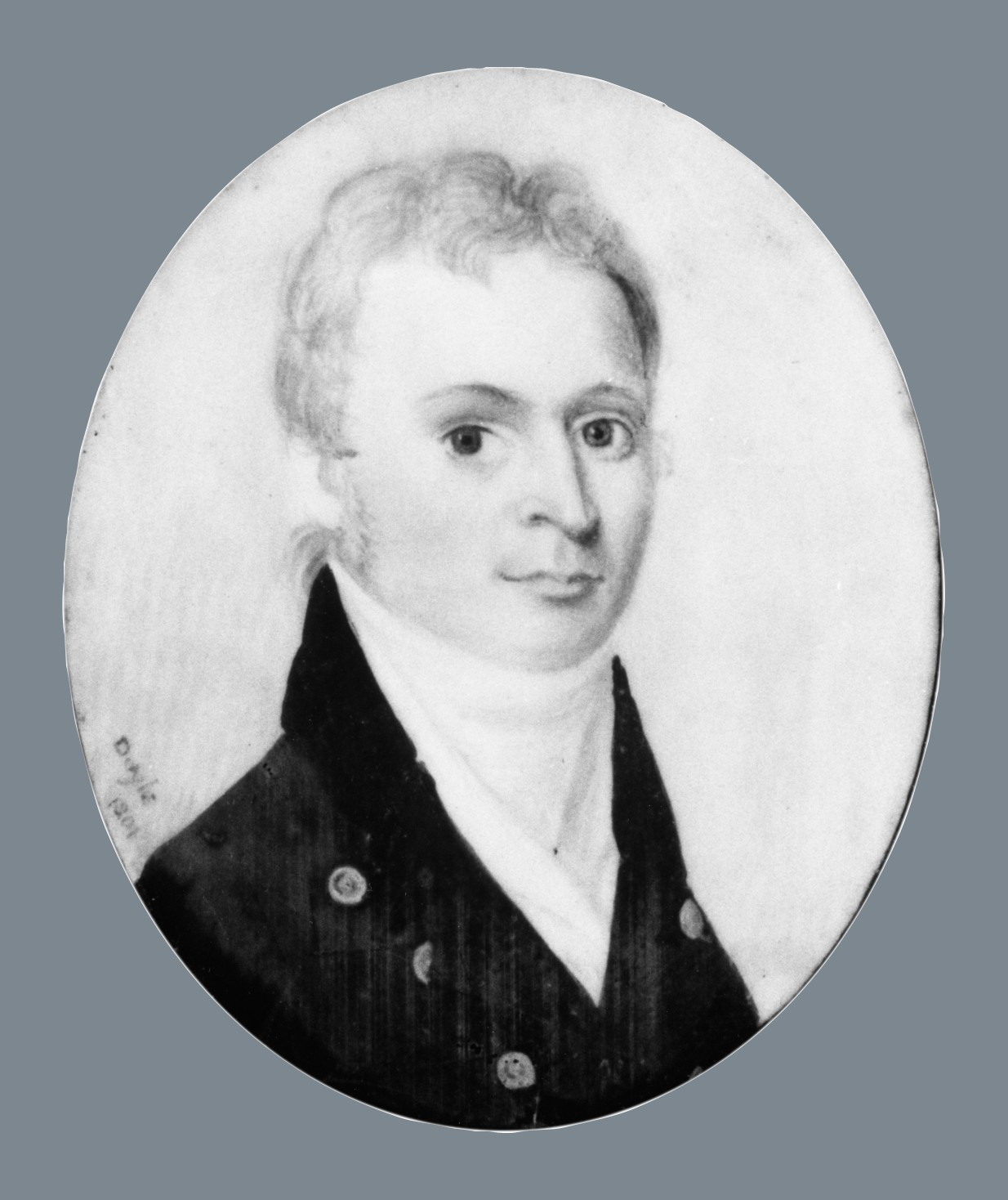 Self Portrait Artist: William M. S. Doyle (American, Boston, Massachusetts 1769–1828 Boston, Massachusetts) Date: 1801 Medium: Watercolor on ivory Dimensions: Sight: 2 1/2 x 2 in. (6.4 x 5.1 cm) Classification: Paintings Credit Line: Gift of J. William Middendorf II, 1968